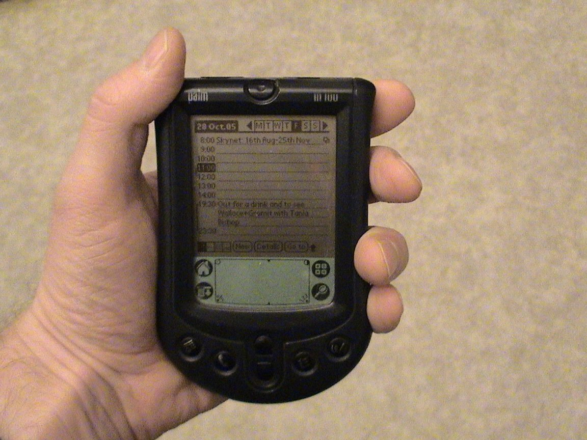 This black and white Palm m100 was mine until December 2005, when I replaced it with the Palm TX, as I was unable to find a cable which would synchronise with my new laptop.